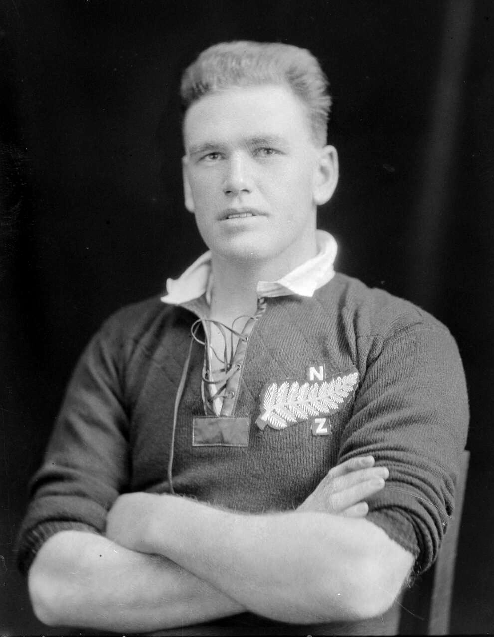 Photograph of All Black Read Masters in rugby jersey, taken by Crown Studio Ltd of Wellington.